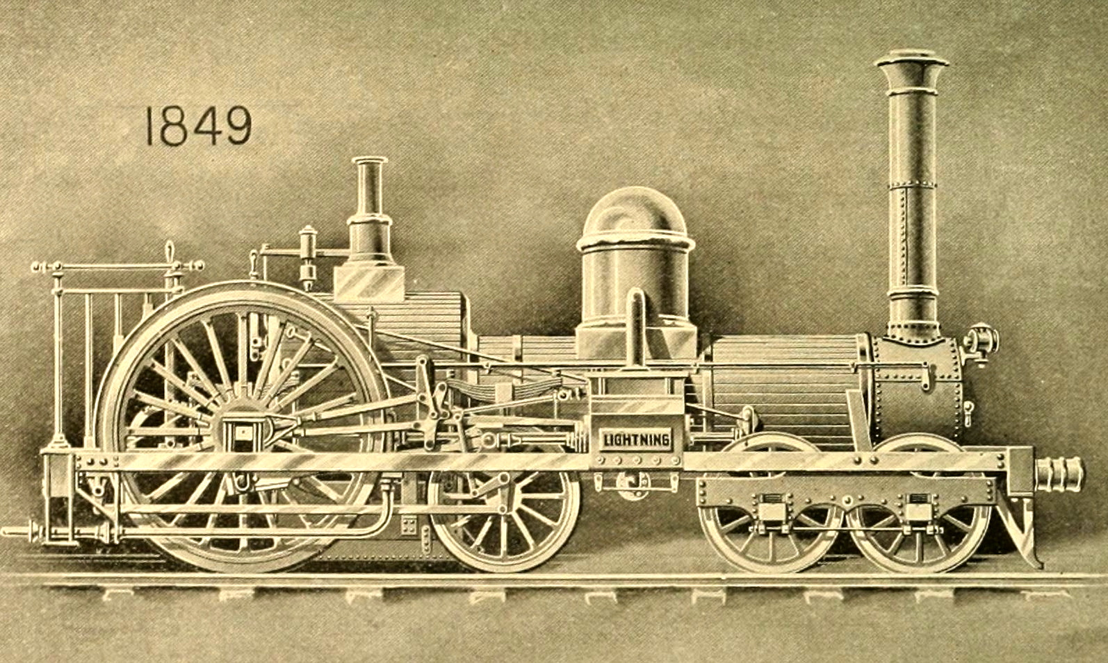 6-2-0 Crampton locomotive, presumably of the Camden and Amboy Railroad, built in 1849, the first Crampton locomotive to be built in the USA. Original caption as supplied with the image was “1849. First ‘Crampton’ built in America.” Image is a cropped scan of: Anonymous: “GRAPHIC HISTORY OF THE LOCOMOTIVE. Twelve Charts. Chart No. 4.” Illustration in Locomotive Engineering: A Practical Journal of Railway Motive Power and Rolling Stock, vol. X, no. 4, April 1897, New York, page 287. Except for the caption, the illustration is not accompanied by an explanatory text. Digitizer: The Internet Archive, 2009 Text Appearing Before Image: LOCOMOTIVE ENGINEERING. 287 Text Appearing After Image: GRAPHIC HISTORY OF THE LOCOMOTIVE. Twelve Charts. Chart No. 4. 1849. First “Crampton” built in America. [...]